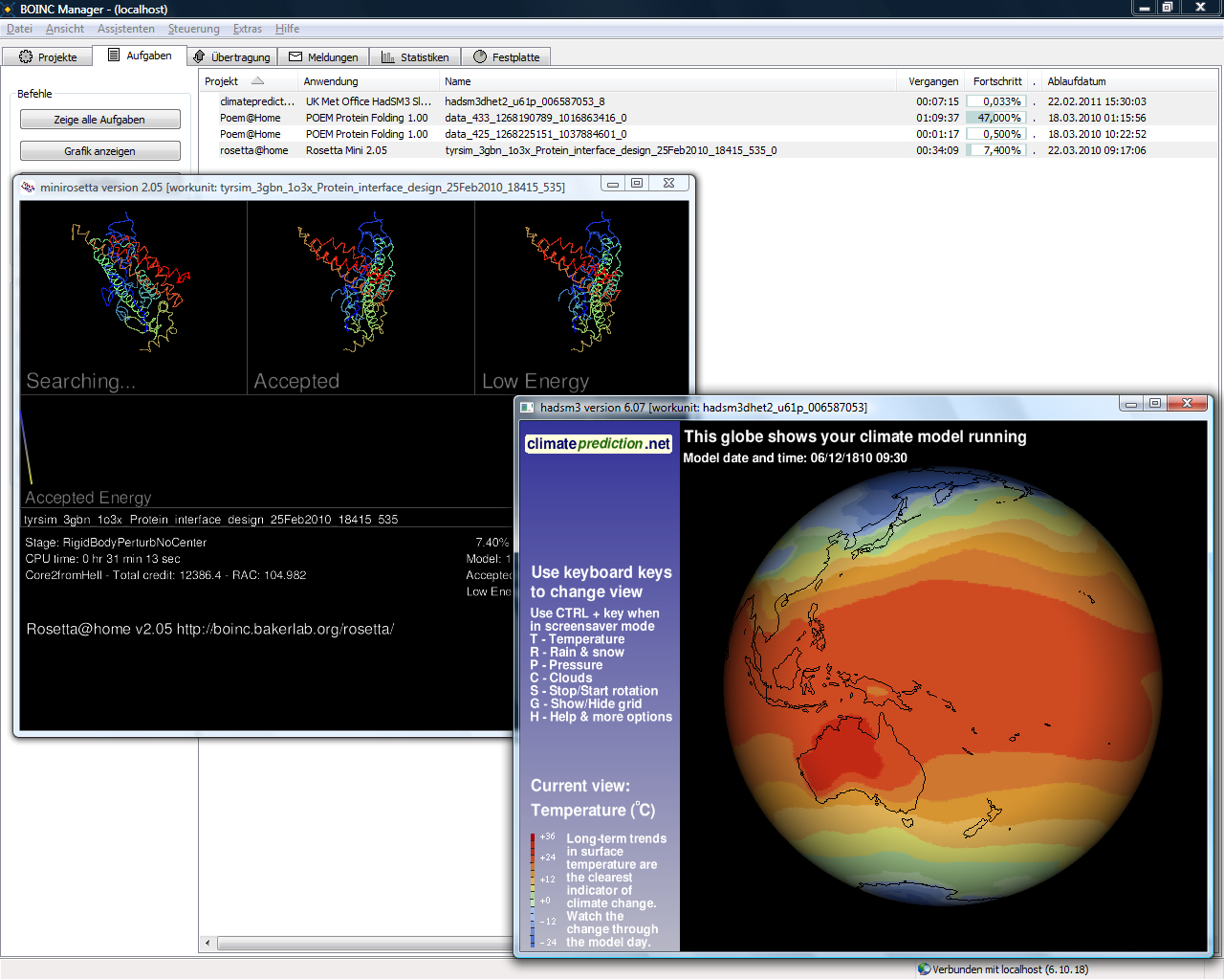 BOINC client, running Rosetta@home 2.05 and